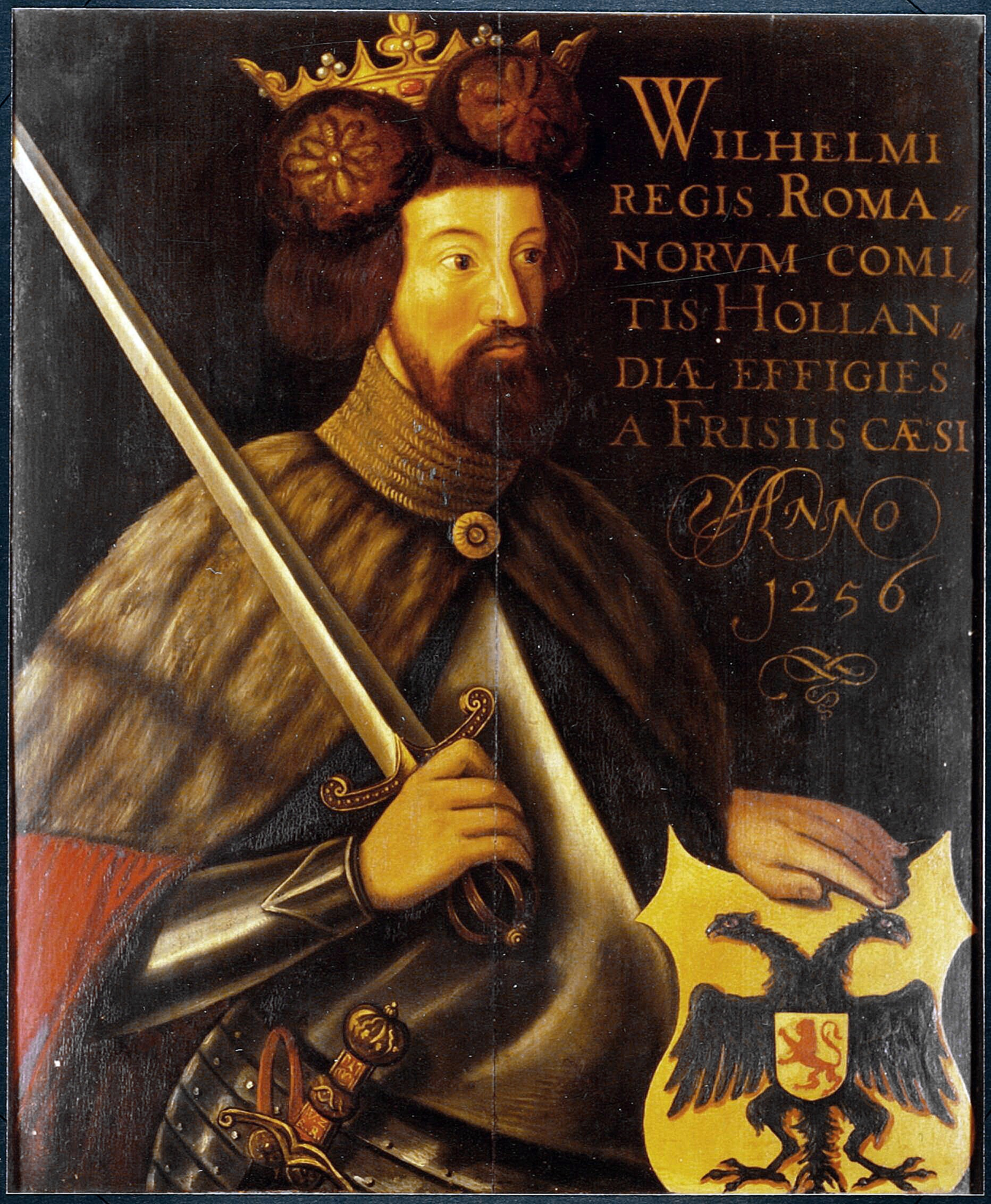 William II of Holland, Roman King (1229-1256) Wilhelmini/regis Roma,,/norvm comi,,/tis Hollan,,/diae effigies/a Frisiis CAESI/Anno/1256 Translation: The portrait of William, the Roman king Count of Holland, who was killed in 1256 by the Frisians. Below the year, in the Locke, there are the letters P. B., which may be the monogram of the Leiden writer Pieter Bailly.